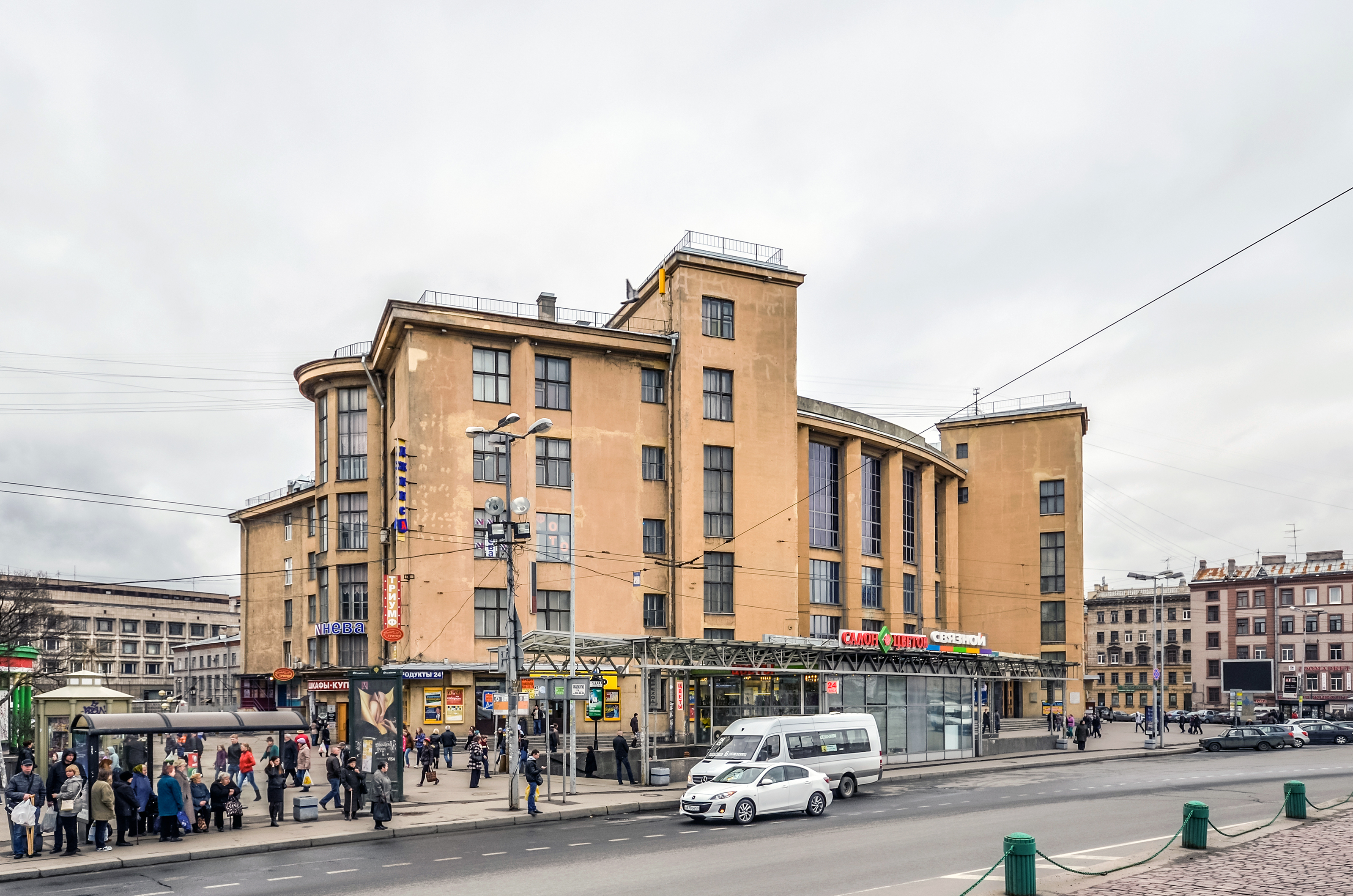 Gorky House of Culture in Saint Petersburg